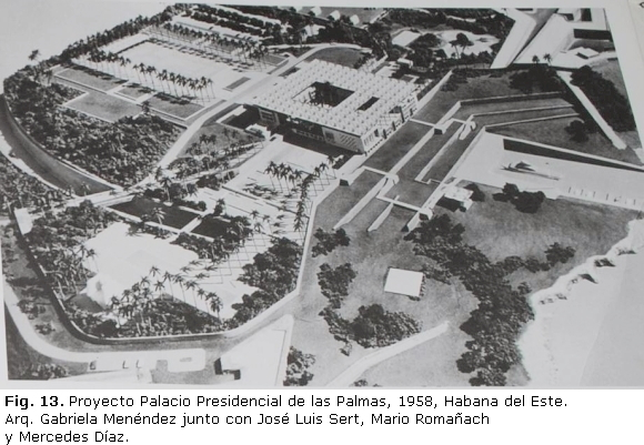 Plan piloto de la habana.4 1956.